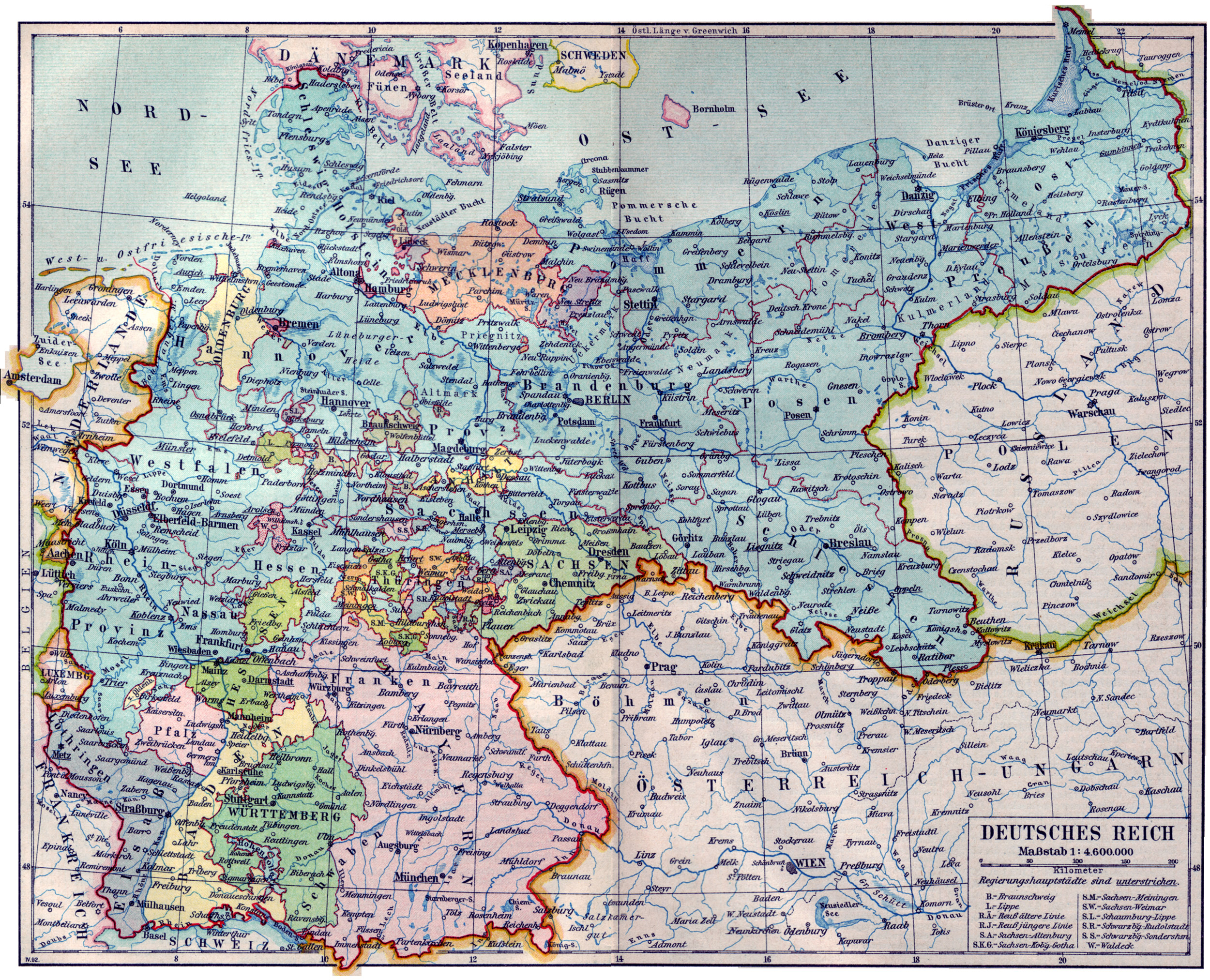 Map of the German Empire 1892